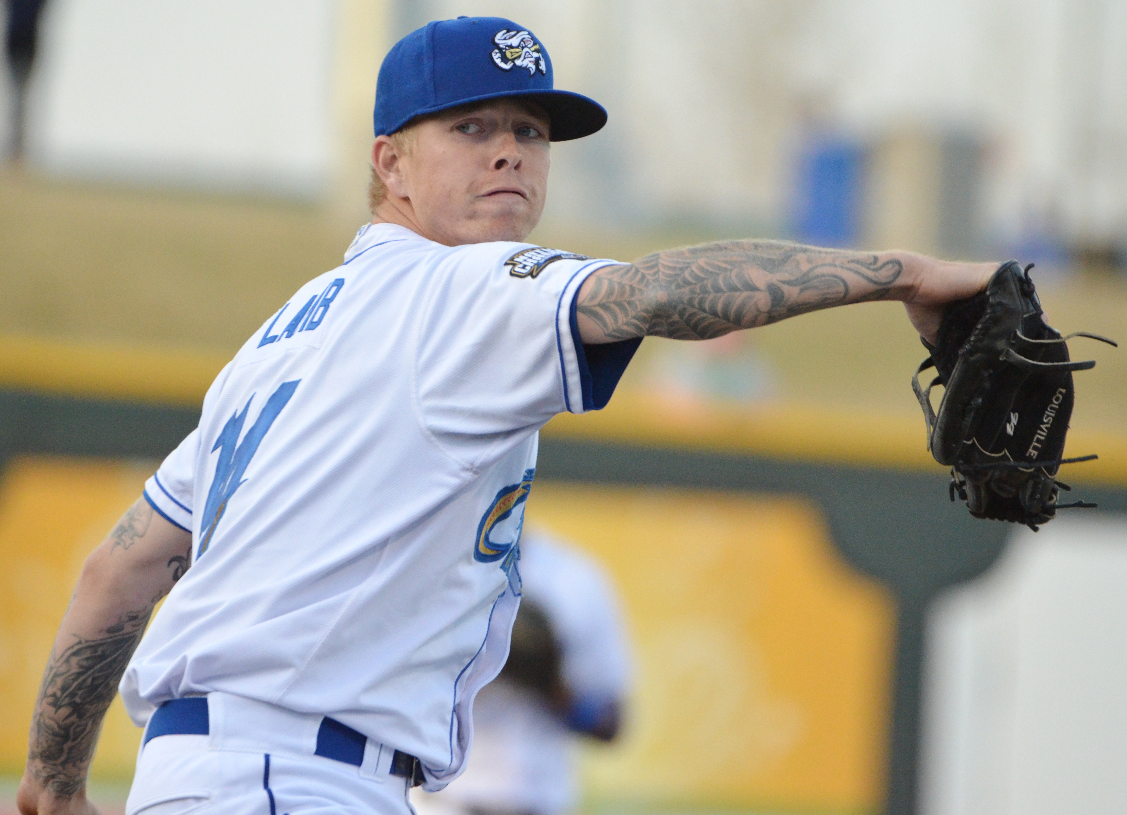 John Lamb delivers a pitch for the Omaha Storm Chasers at Werner Park in Omaha in 2014.